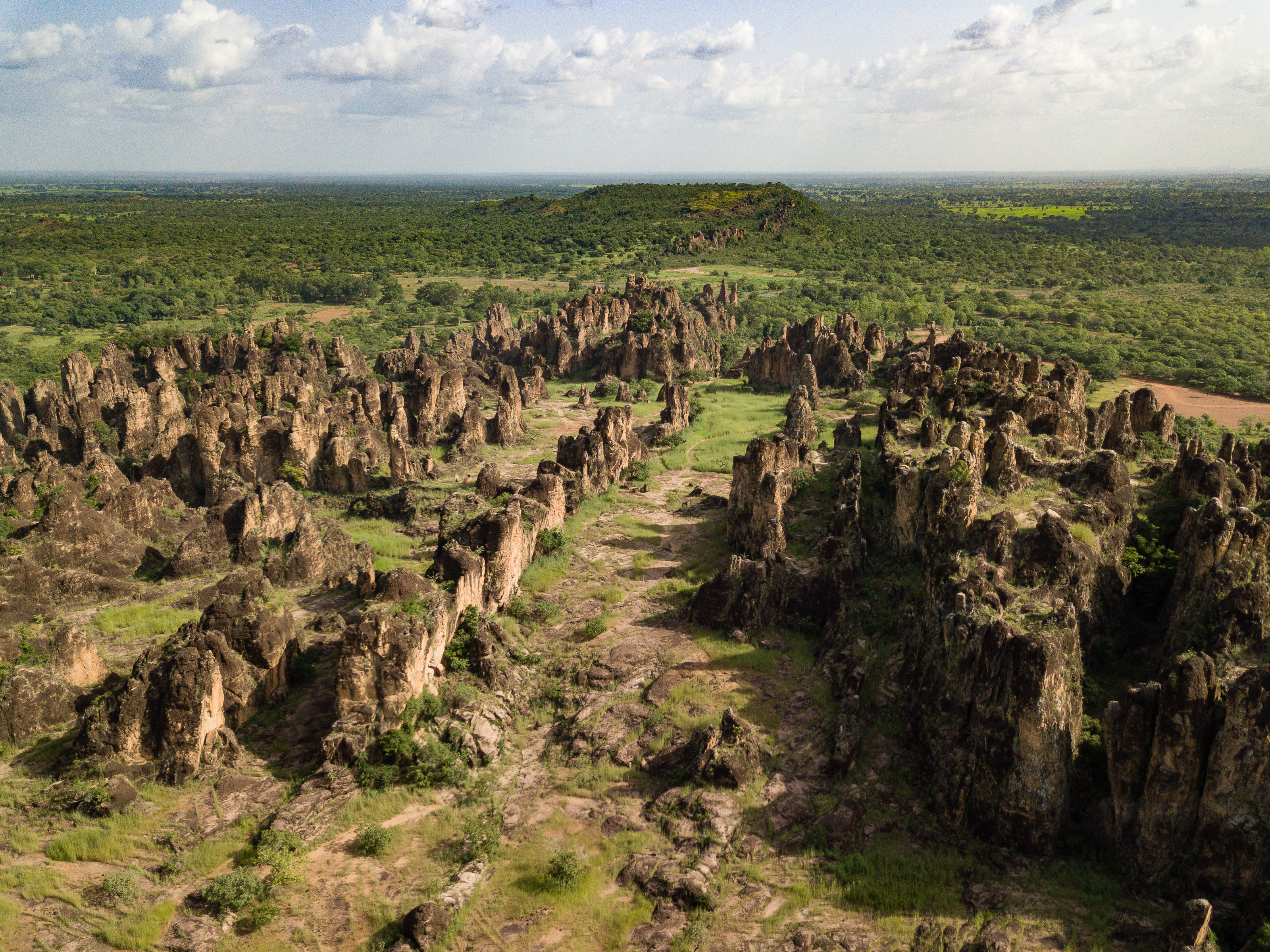 Aerial south-by-southwest view of the Sindou Peaks geological formation in southwestern Burkina Faso.